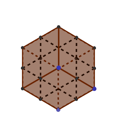 The orthographic projection of the unit cube onto the plane x+y+z=0 gives a hexagram.